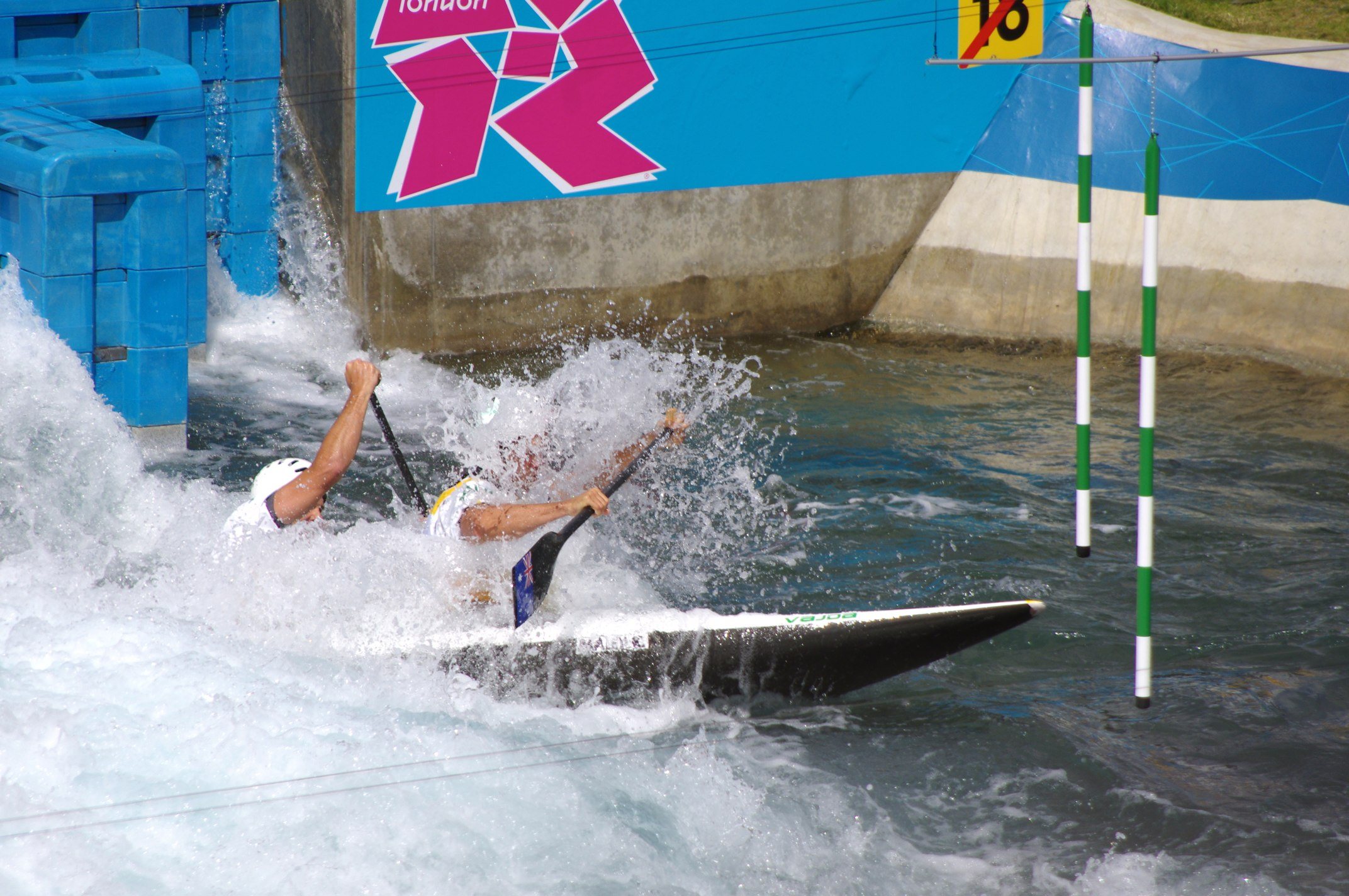 Canoeing at the 2012 Summer Olympics – Men's slalom C-2 Kynan Maley (10A, right) and Robin Jeffery (10B, left) (AUS)